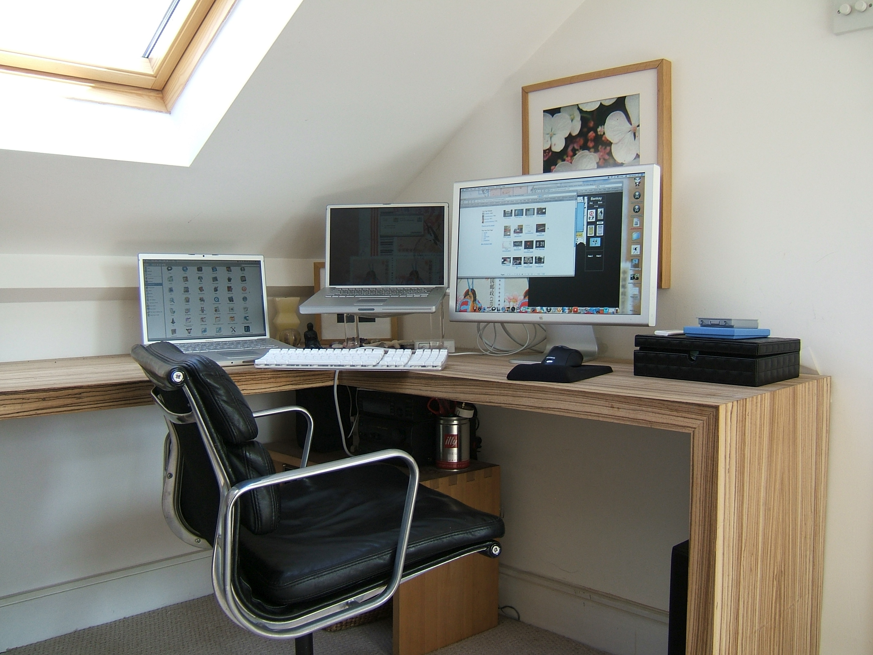 The AppleTree